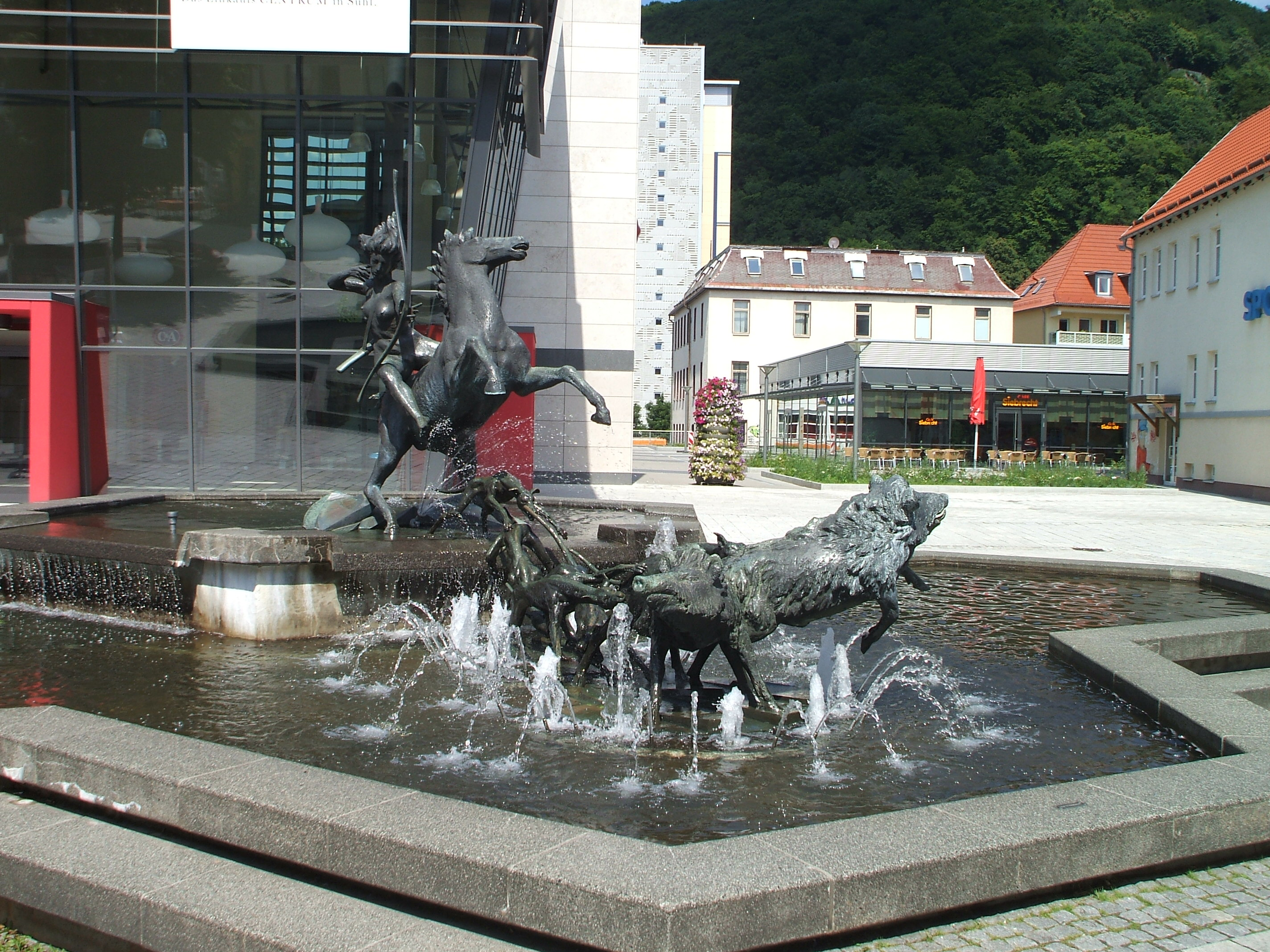 Fountain "Diana auf Jagd" by Waldo Dörsch; ca. 1983; Suhl, Germany